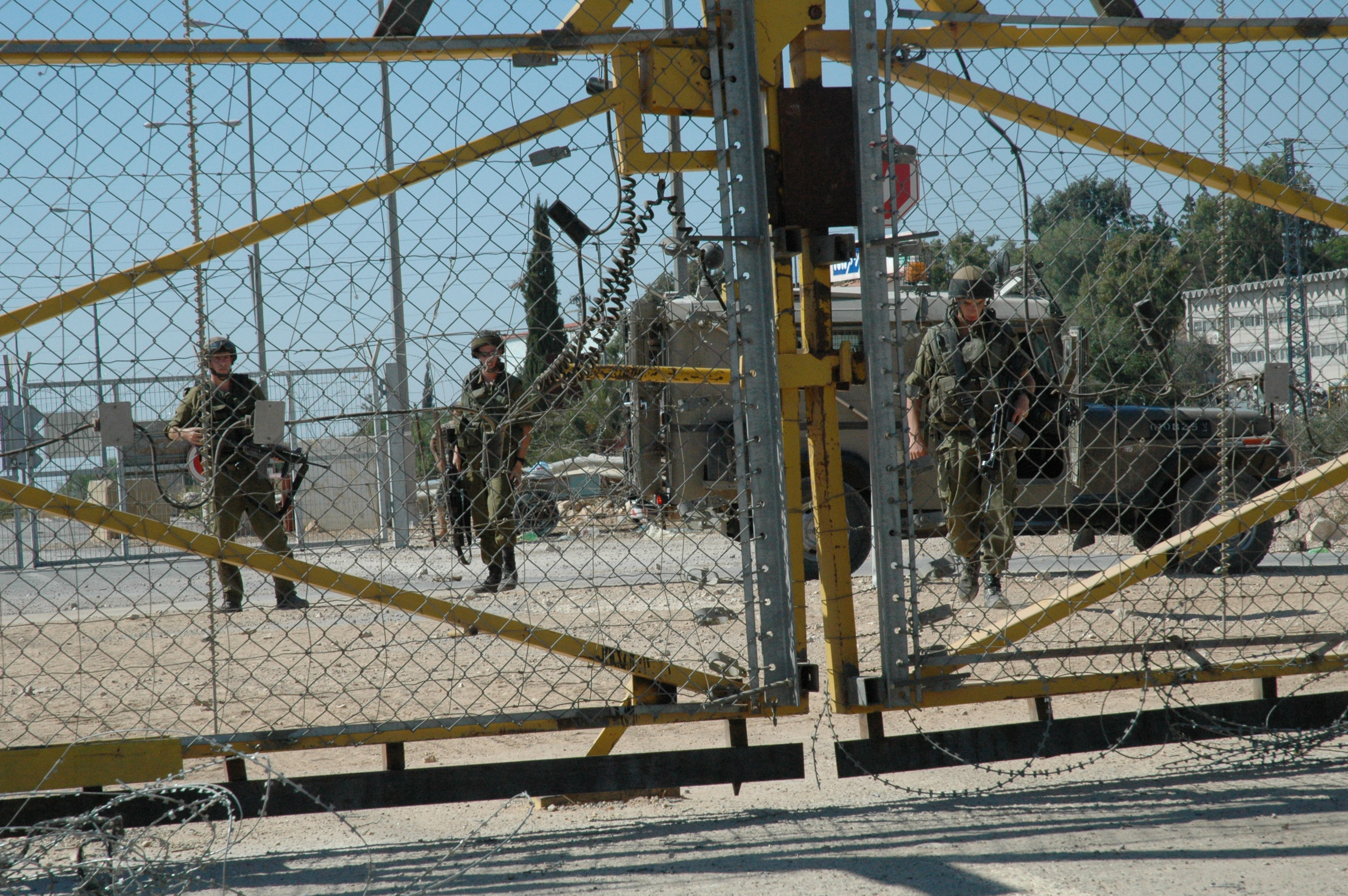 Israeli soldiers guarding a gate in Mas'Ha.